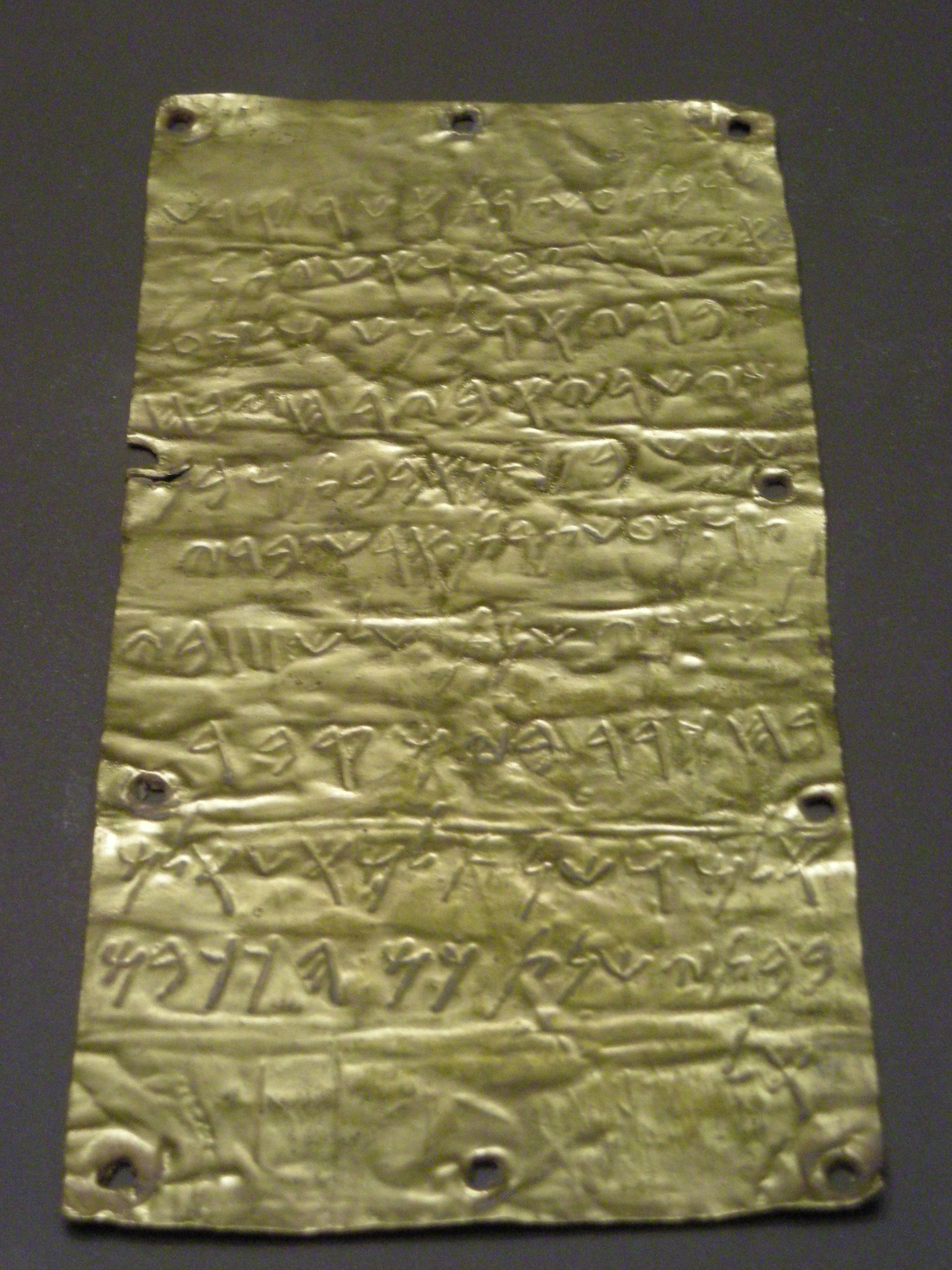 "Pyrgi tablets". Laminated sheets of gold with a treatise both in Etruscan and Phoenician languages. From Etruscan Museum in Rome (Museo di Villa Giulia). Photos taken in Caixa Forum (Madrid).